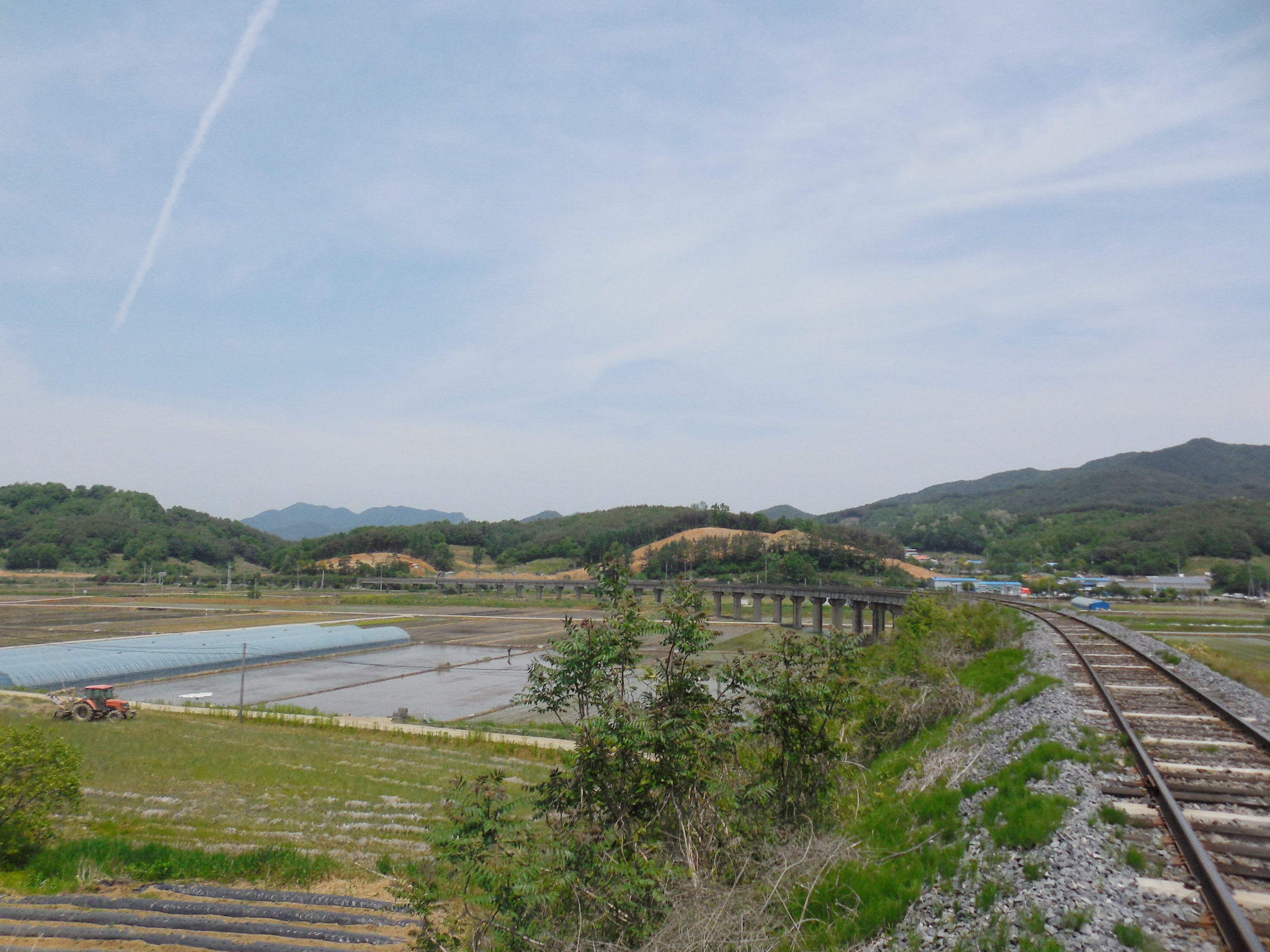 Seocheonhwaryeok Line: Yaryong-ri, Jusan-myeon, Boryeong-si, Chungcheongnam-do.